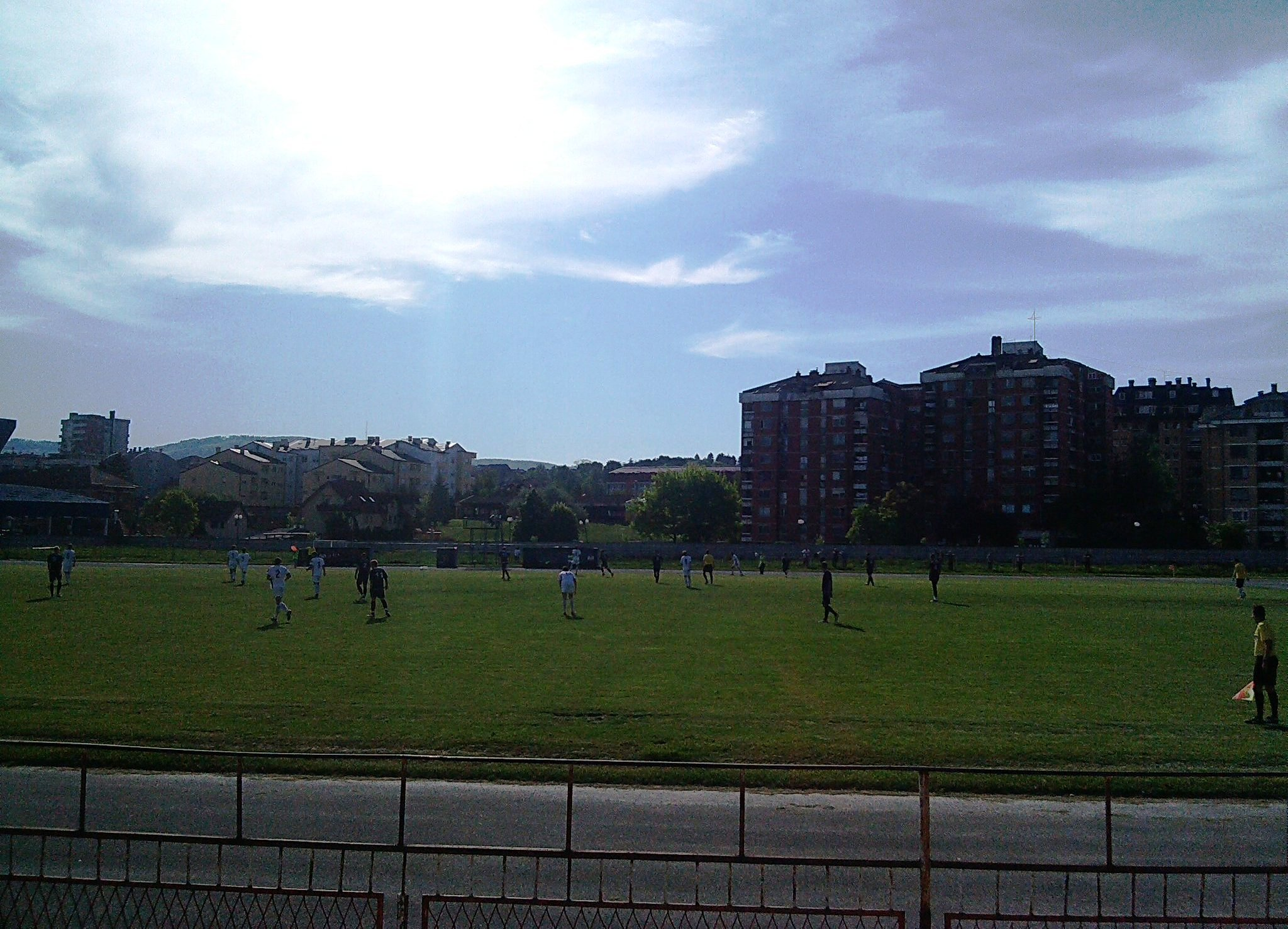 SD Takovo Stadium, Gornji Milanovac, Serbia Српски (ћирилица): Стадион СД Таково, Горњи Милановац, Србија Утакмица Таково - Водојажа у сезони 2014/15.